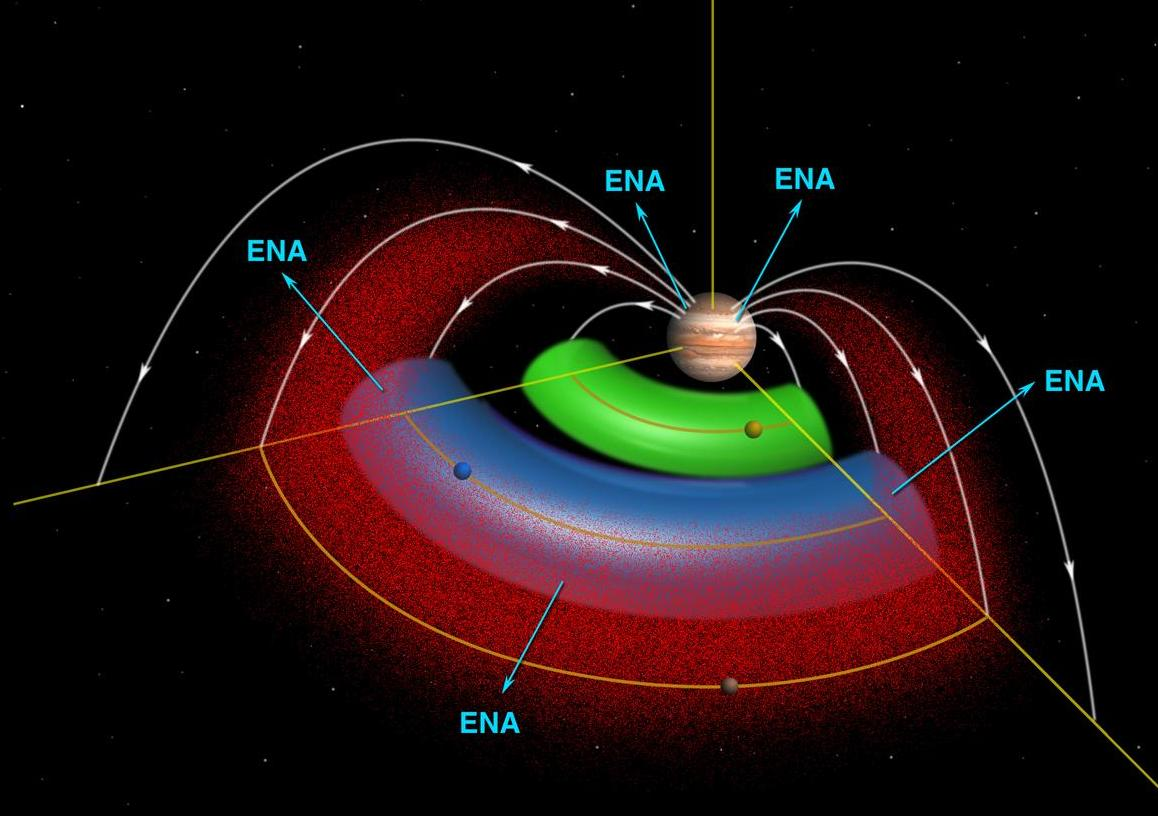 Jupiter Torus Diagram (cropped version) original description: A cut-away schematic of Jupiter's space environment shows magnetically trapped radiation ions (in red), the neutral gas torus of the volcanic moon Io (green) and the newly discovered neutral gas torus of the moon Europa (blue). The white lines represent magnetic field lines. Energetic neutral atoms (ENA) are emitted from the Europa torus regions because of the interaction between the trapped ions and the neutral gases. The Magnetospheric Imaging Instrument on NASA's Cassini spacecraft imaged those energetic neutral atoms in early 2001 during Cassini's flyby of Jupiter. Energetic neutral atoms also come from Jupiter when radiation ions impinge onto Jupiter's upper atmosphere.